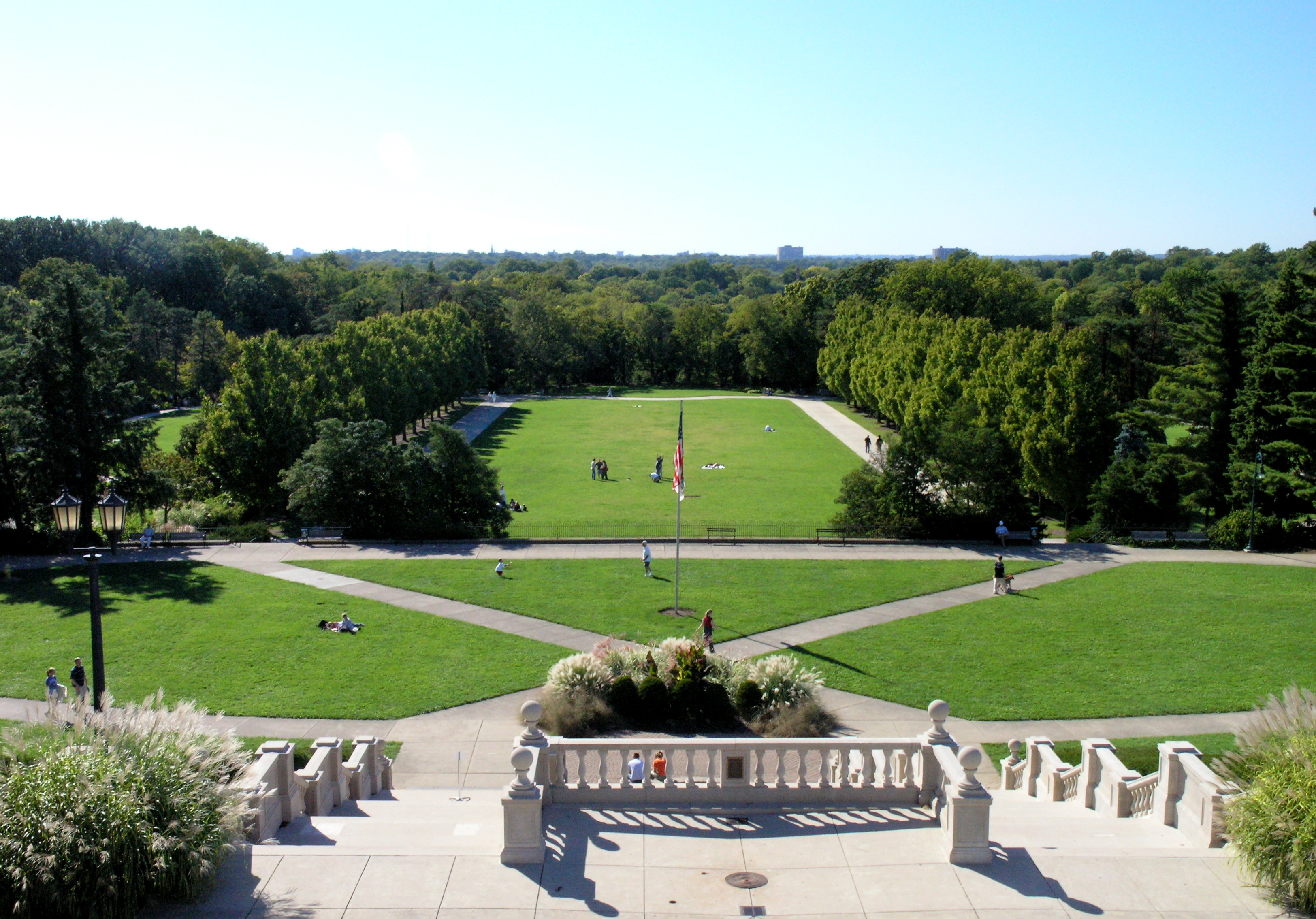 Ault Park - taken from second floor of pavilion.